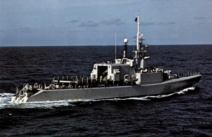 The Canadian destroyer HMCS Assiniboine (DDH 234) underway during the NATO exercise "Northern Wedding '82".